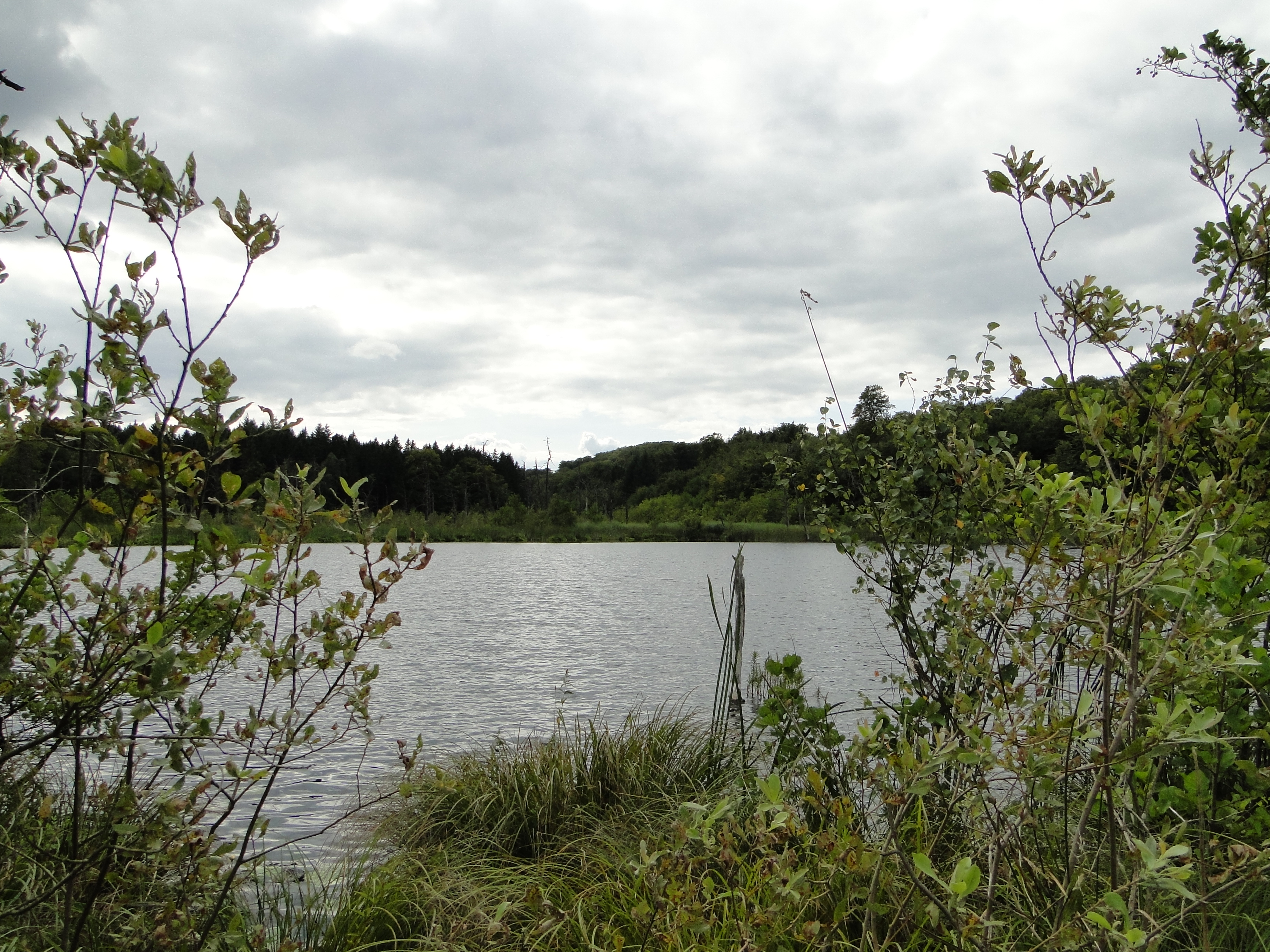 Schwarzer See (Black Lake) in the nature reserve "Hohe Burg und Schwarzer See" near Schlemmin, district Rostock, Mecklenburg-Vorpommern, Germany